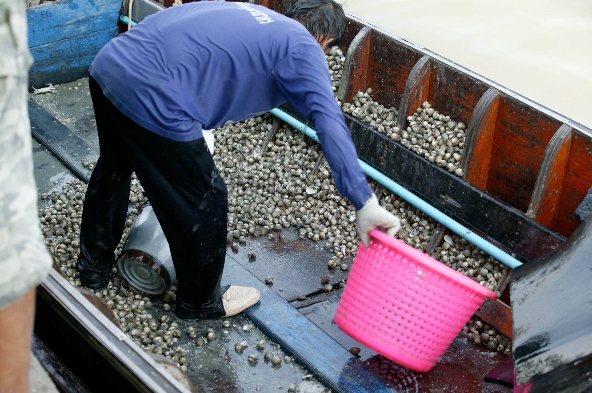 การประกอบอาชีพเลี้ยงหอยแครง